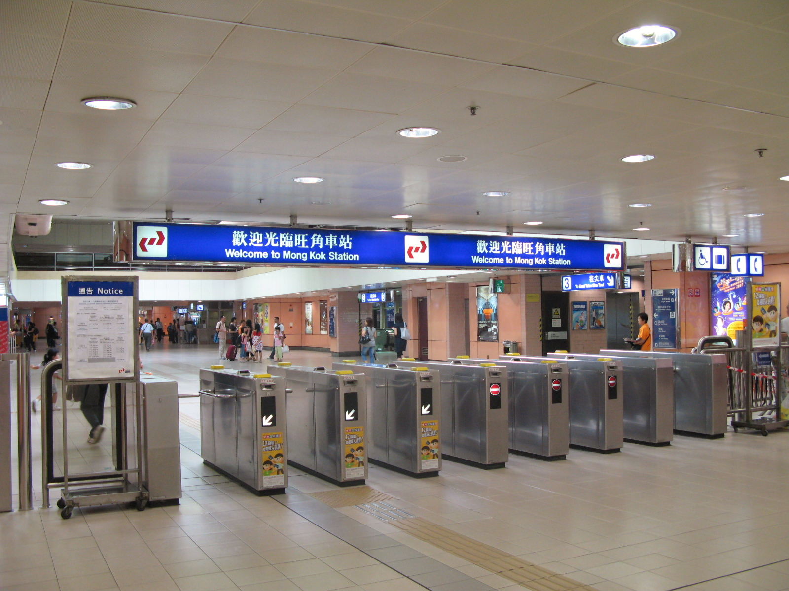 HK KCR Mong Kok Station overview